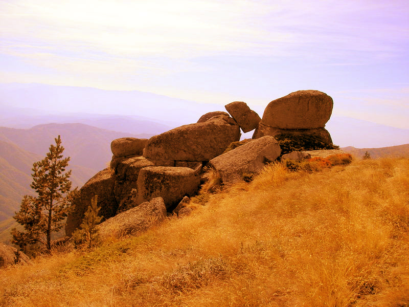 Carev peak megalithic arc